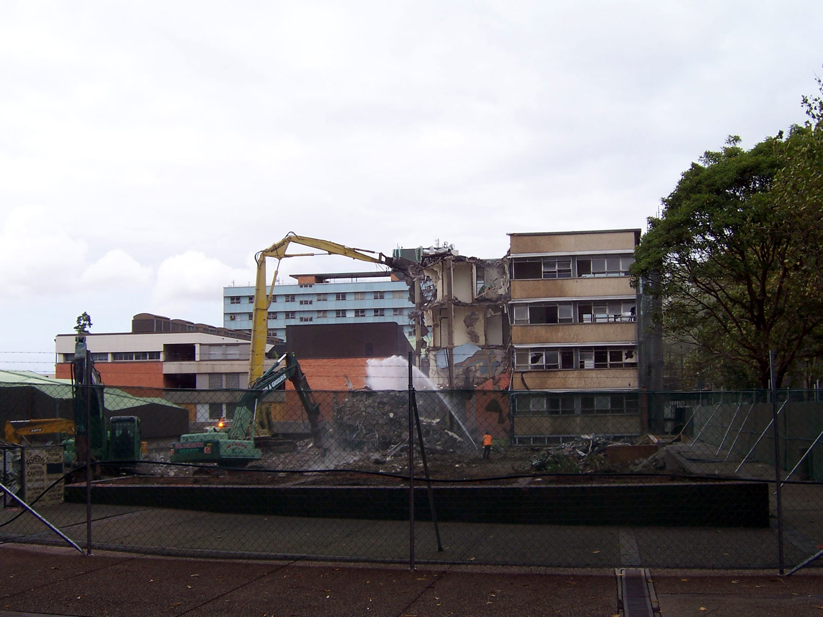 Demolition of Edgeworth David building, which housed geosciences, at the University of Sydney to make way for the new Faculty of Law building, as part of the Campus 2010 project. The Stephen Roberts lecture theatre, which has also been demolished, can be seen to the left of the photo. Taken by Enoch Lau on 15 February 2006. As a courtesy, please let me know if you alter this image or this image description page. Original filename was 100_1405.JPG.